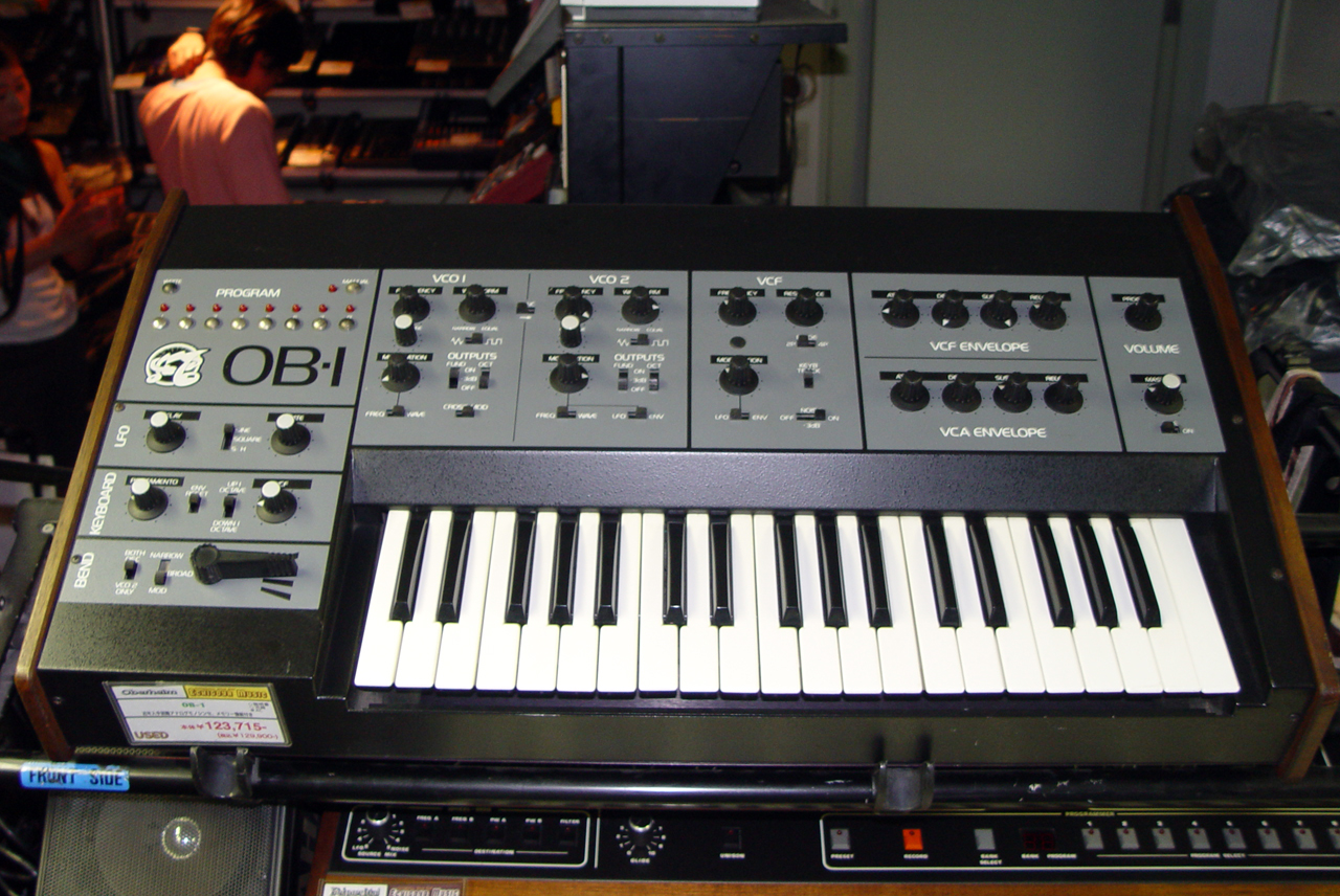 Oberheim OB-1 seen at Echigoya music in Shibuya.